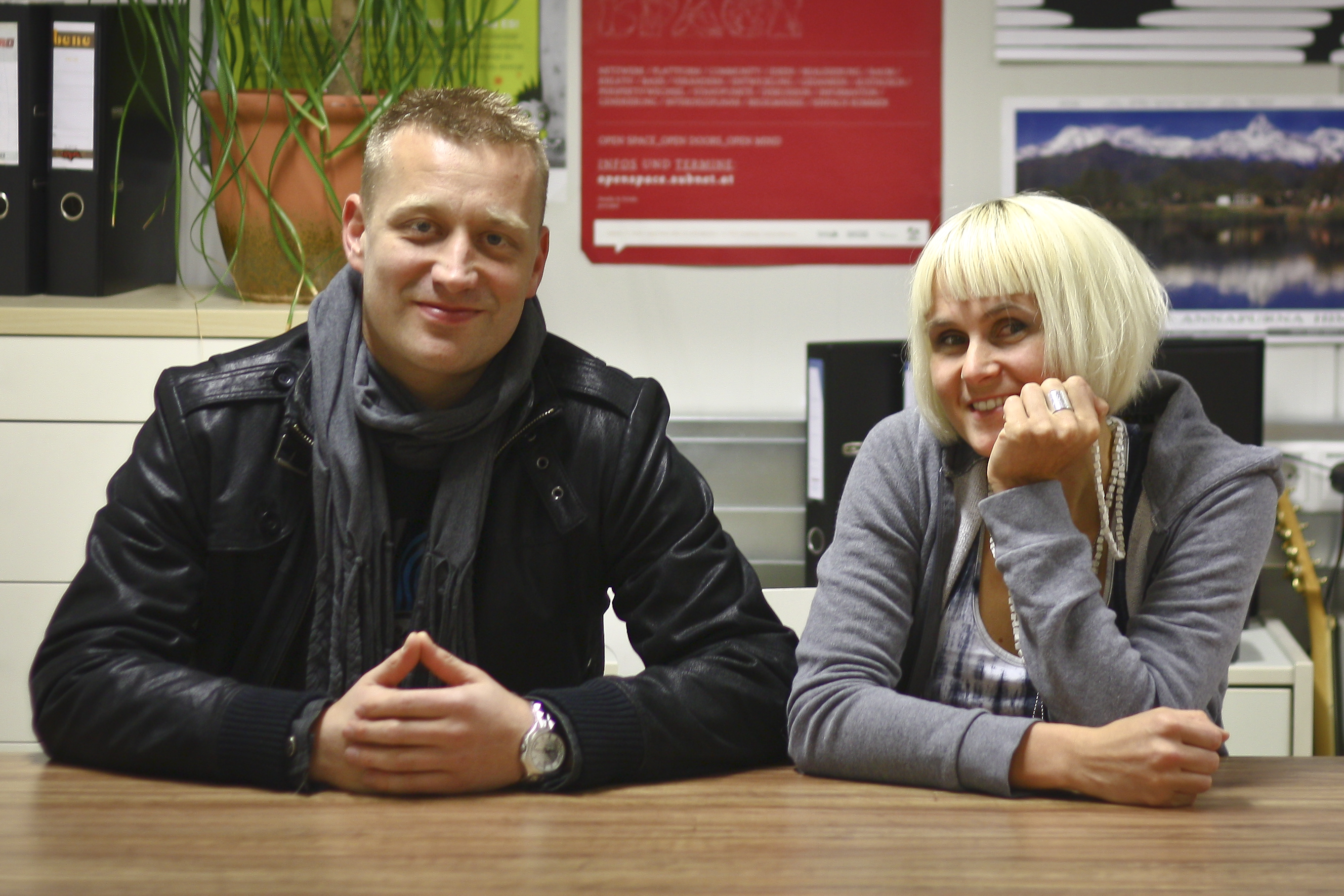 Mono & Nikitaman